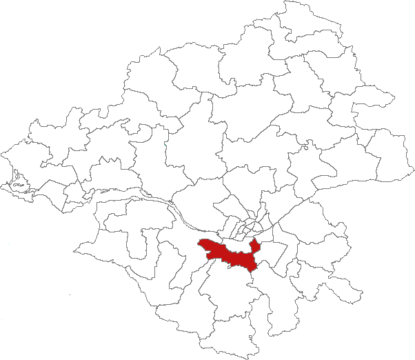 Map of canton of France : Canton de Bouaye, Loire-Atlantique, France